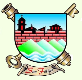 San Felipe Municipality shield (Yaracuy),Venezuela